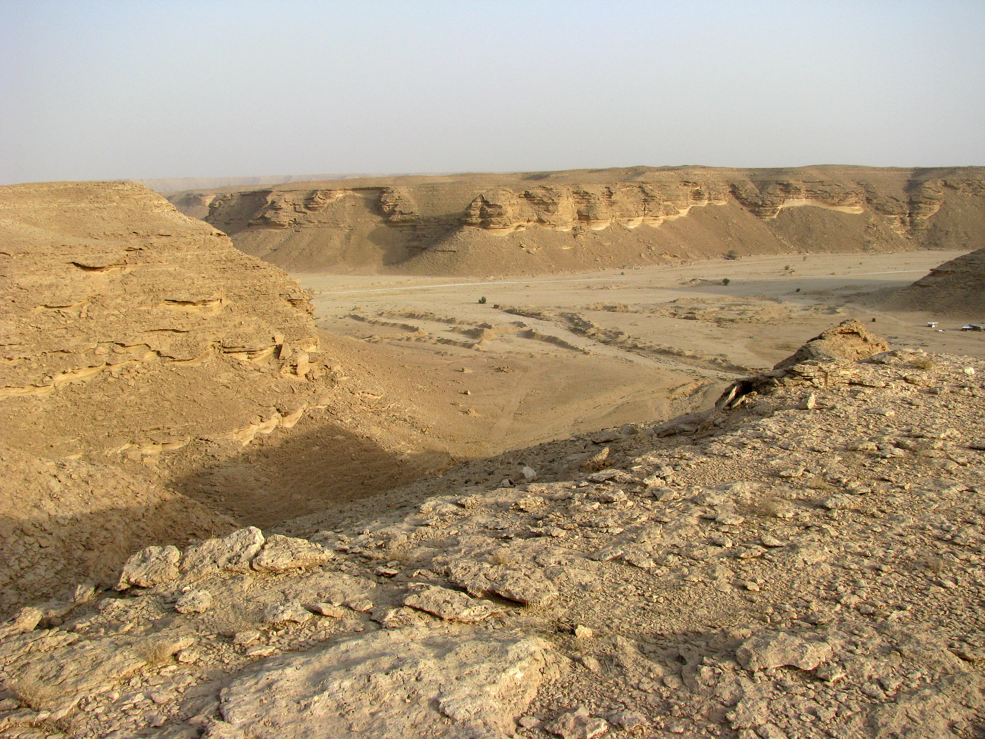 Signs of the camel herders are visible at the right side of this photo